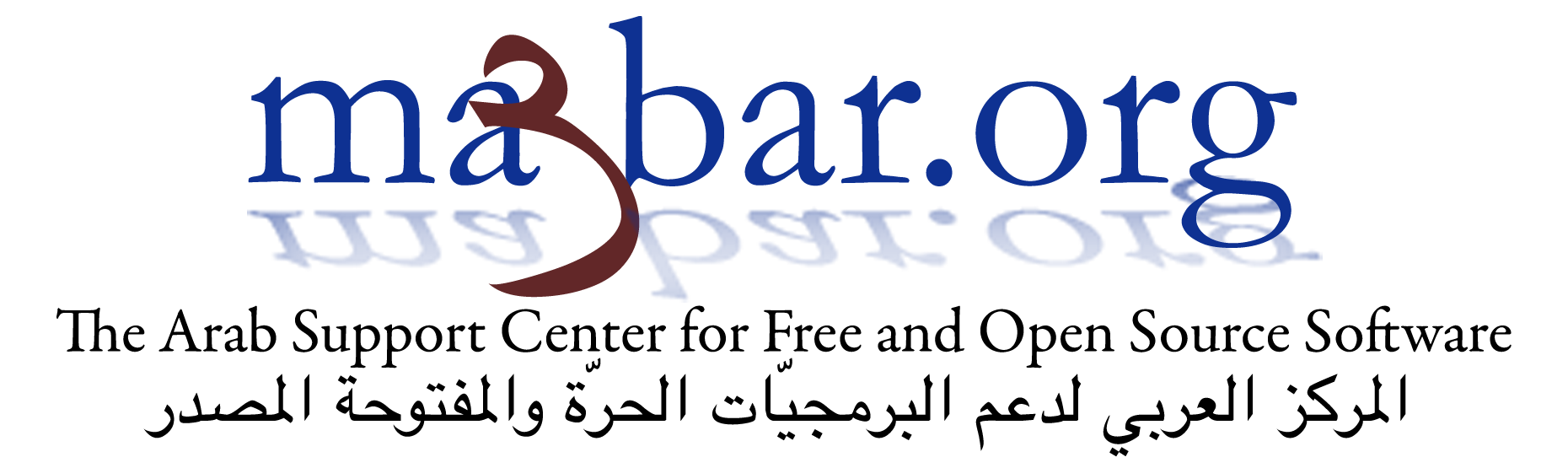 no